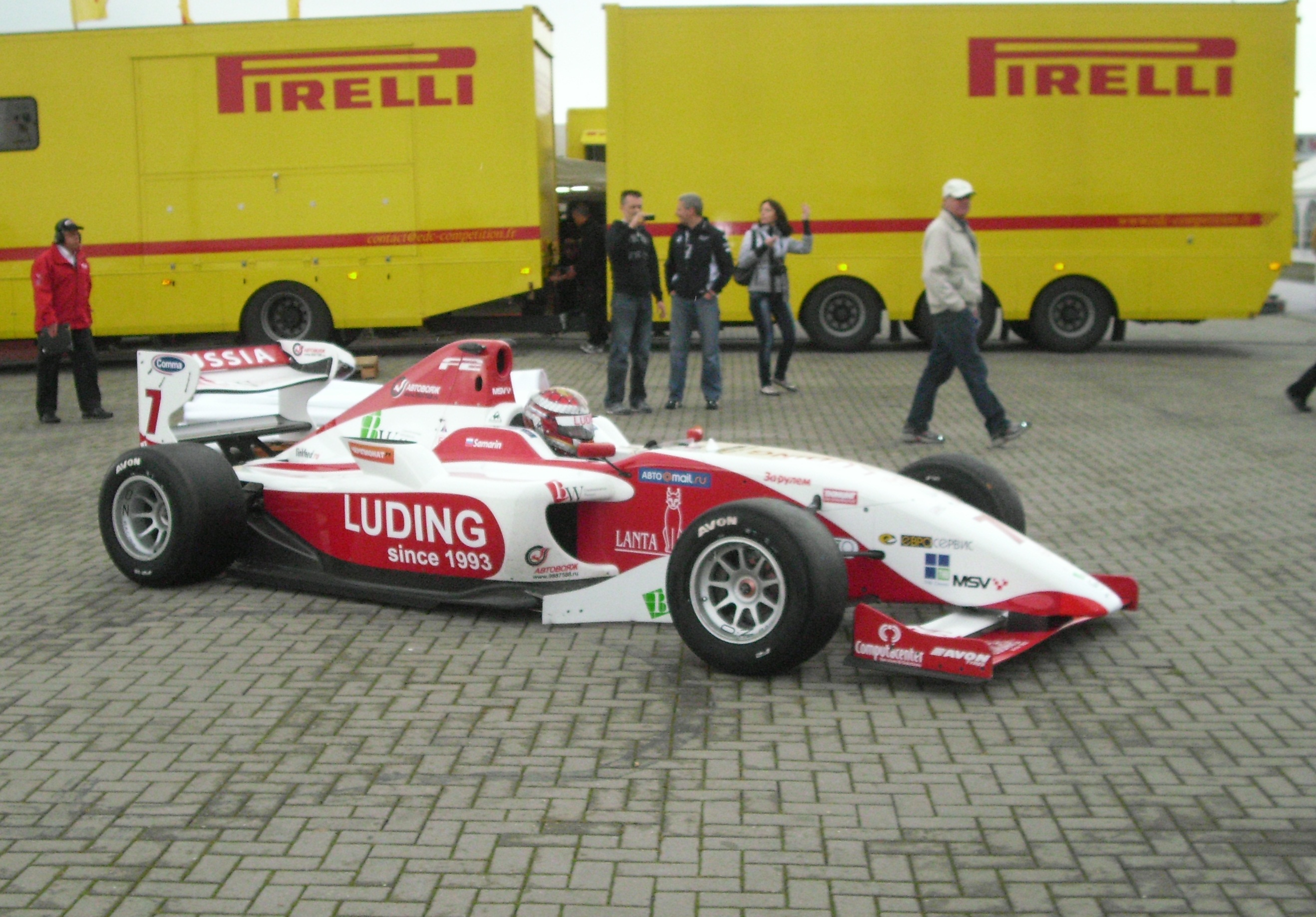 Racing driver Ivan Samarin moves his Williams JPH1B F2 to the race circuit. The photo was photographed in Oschersleben (Germany).